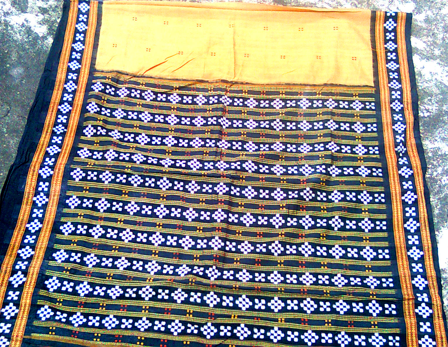 Pasaapaali saree from Bargarh district ,Orissa